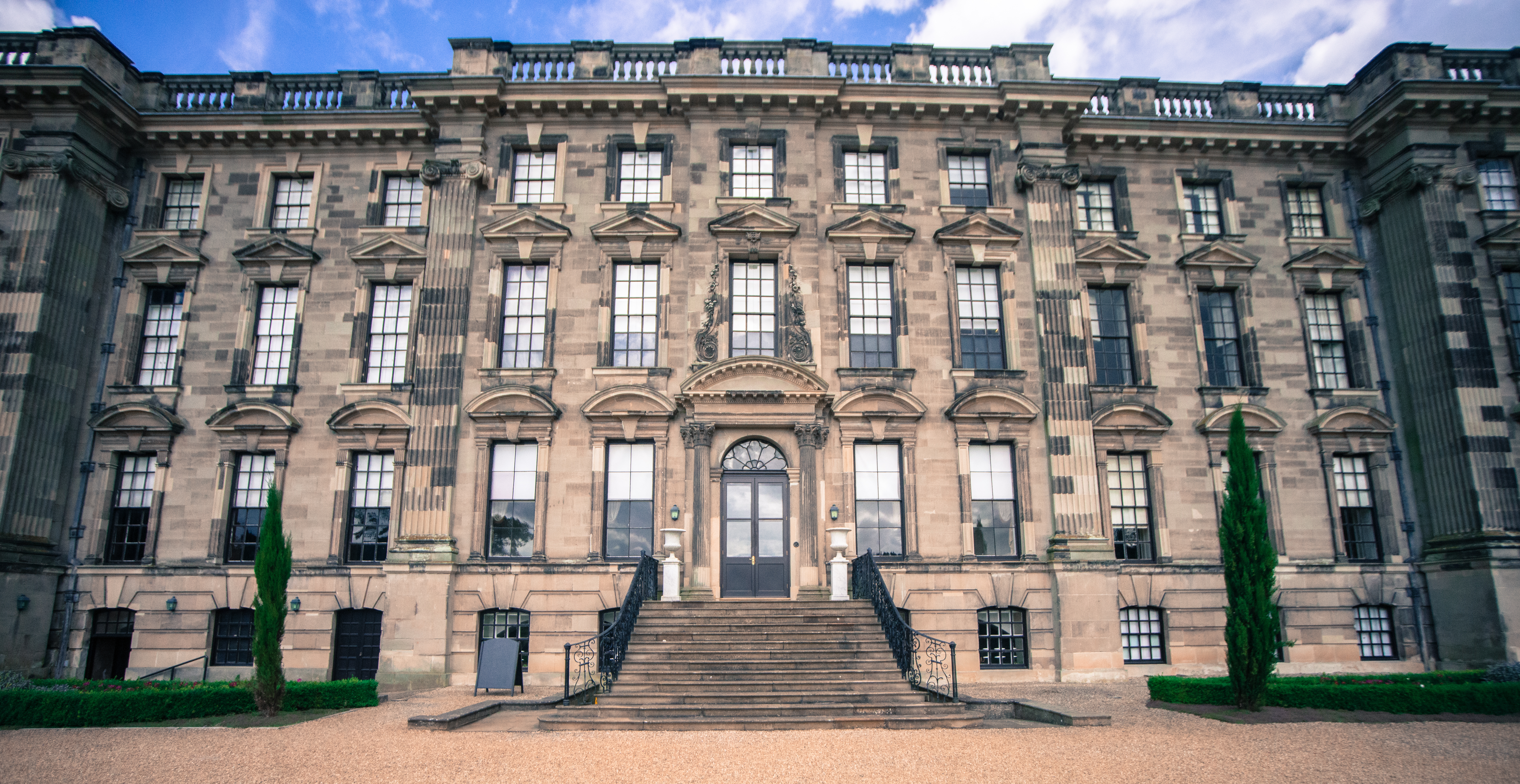 The facade of the Wet Wing of Stoneleigh Abbey